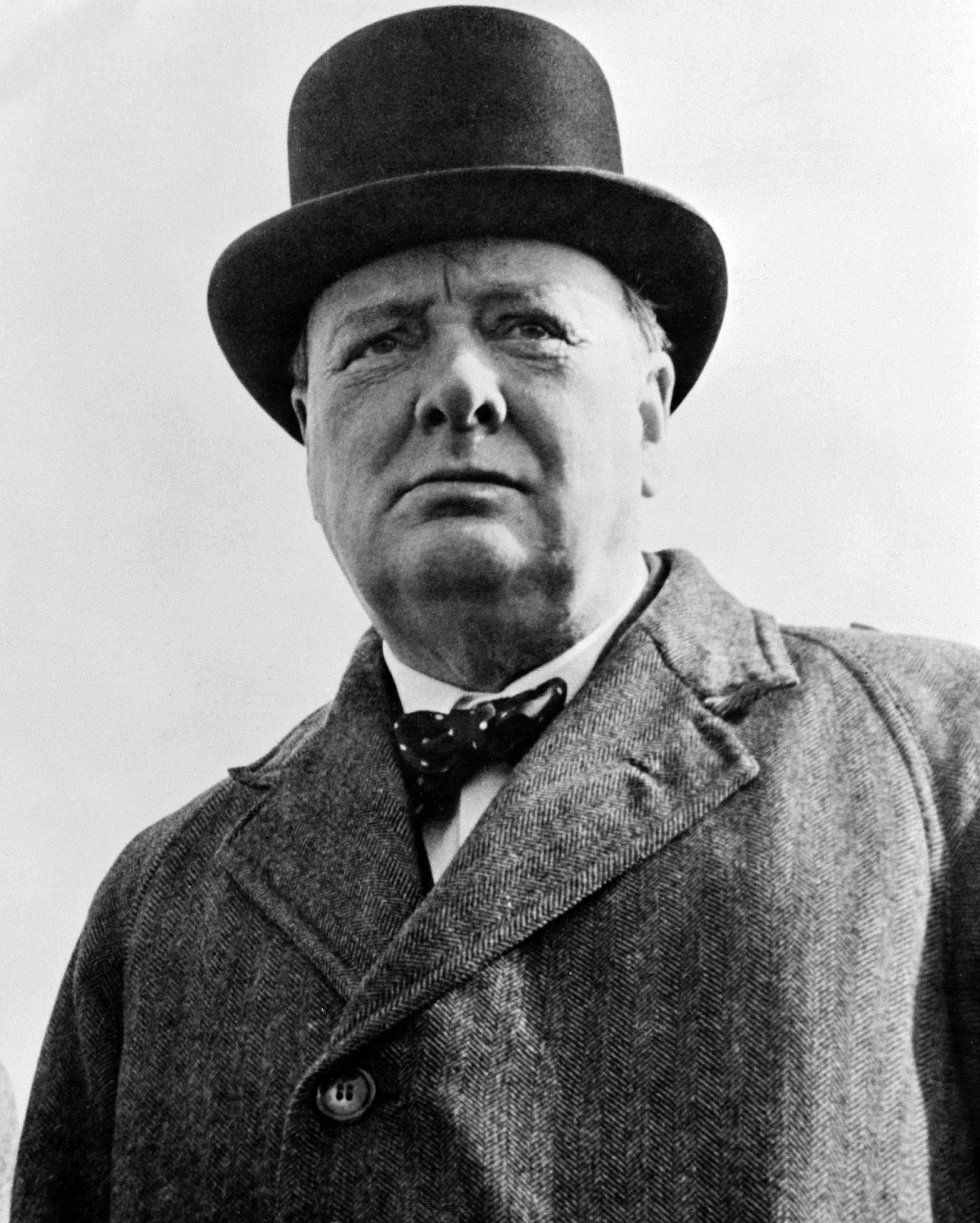 Sir Winston Churchill.